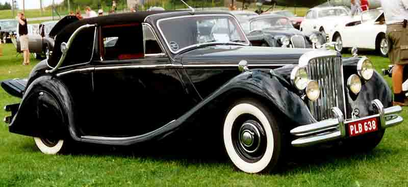 Jaguar Mark V Drophead Coupé